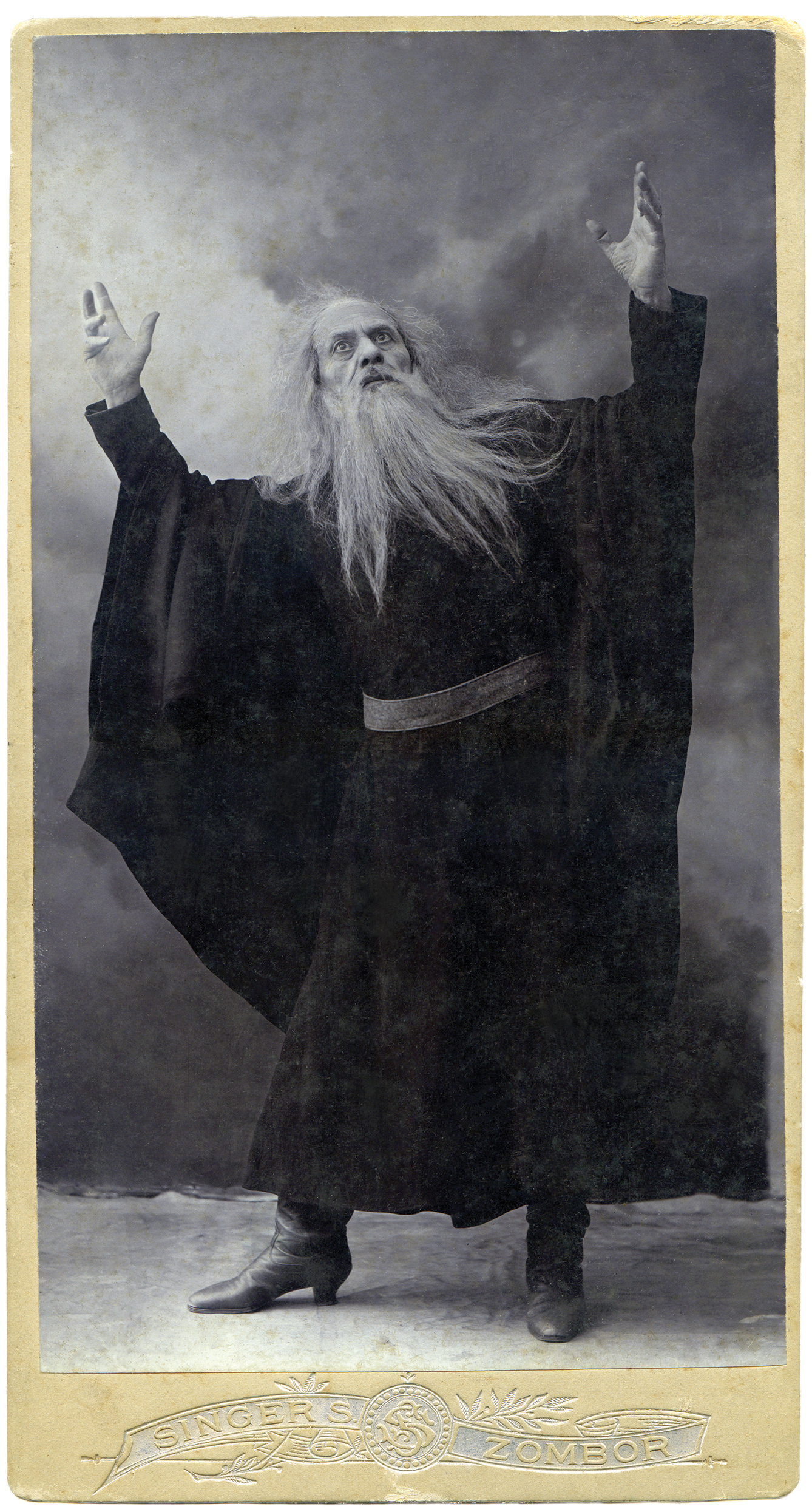 Serbian actor Dimitrije Ružić as King Lear by W. Shakespeare, Serbian National Theater in Novi Sad, approx 1899 (Photo studio of Samuel Singer, Sombor) Srpski (latinica): Srpski pozorišni glumac, Dimitrije Ružić kao Kralj Lir Vilijama Šekspira, Srpsko narodno pozorište, Novi Sad, oko 1899. (Atelje Samuela Singera, Sombor) Српски (ћирилица): Српски позоришни глумац, Димитрије Ружић, као Краљ Лир Вилијама Шекспира, Српско народно позориште, Нови Сад, око 1899. (Атеље Самуела Сингера, Сомбор)